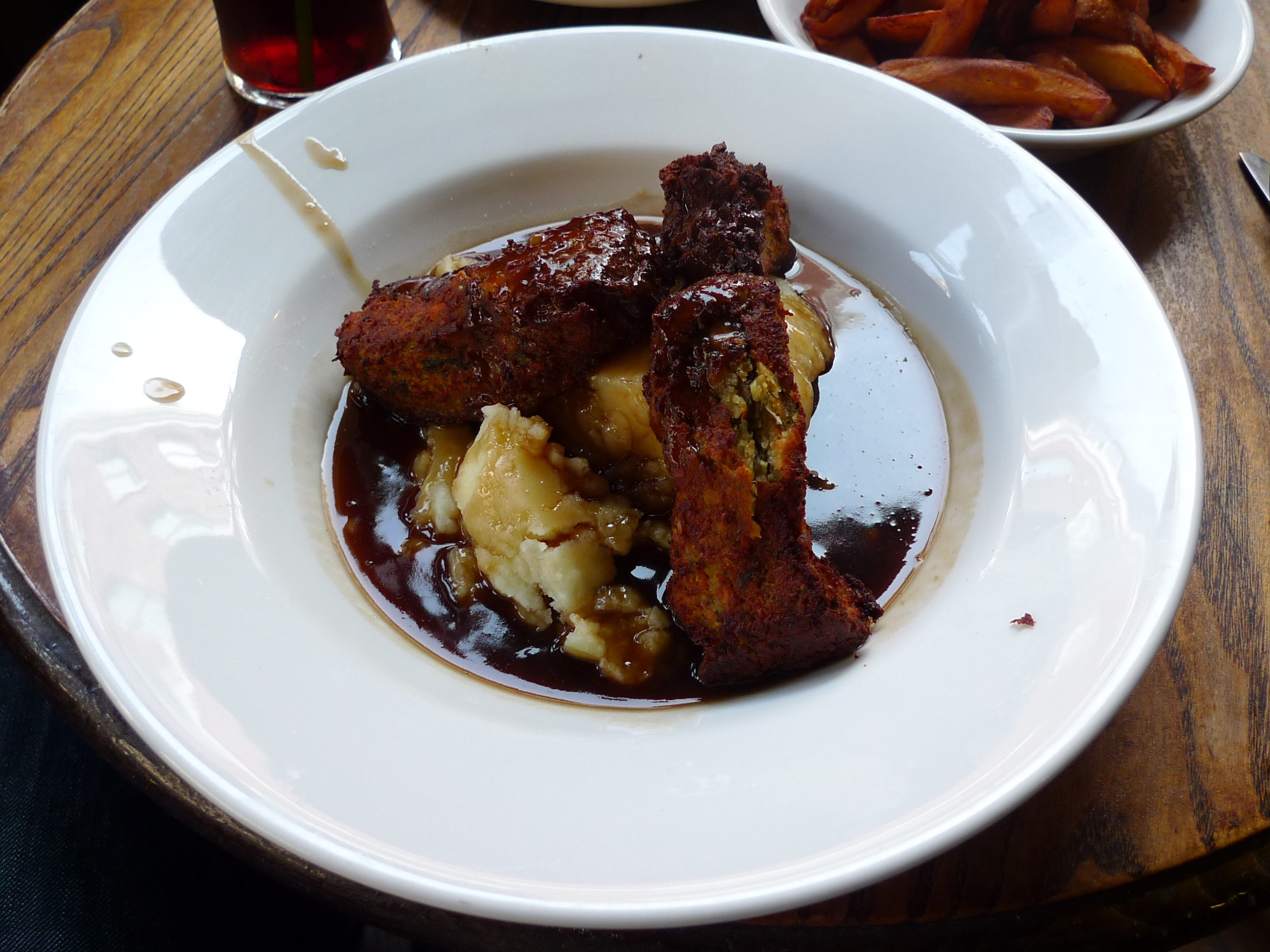 The vegetarian sausages with mash and perhaps a touch too much gravy, but still very tasty. At The Hope, Tottenham Street.